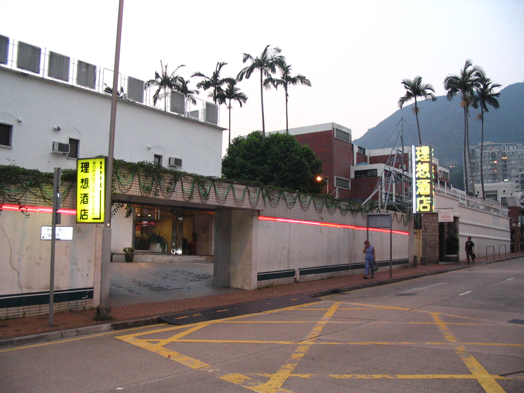 Photo of Romantic Hotel